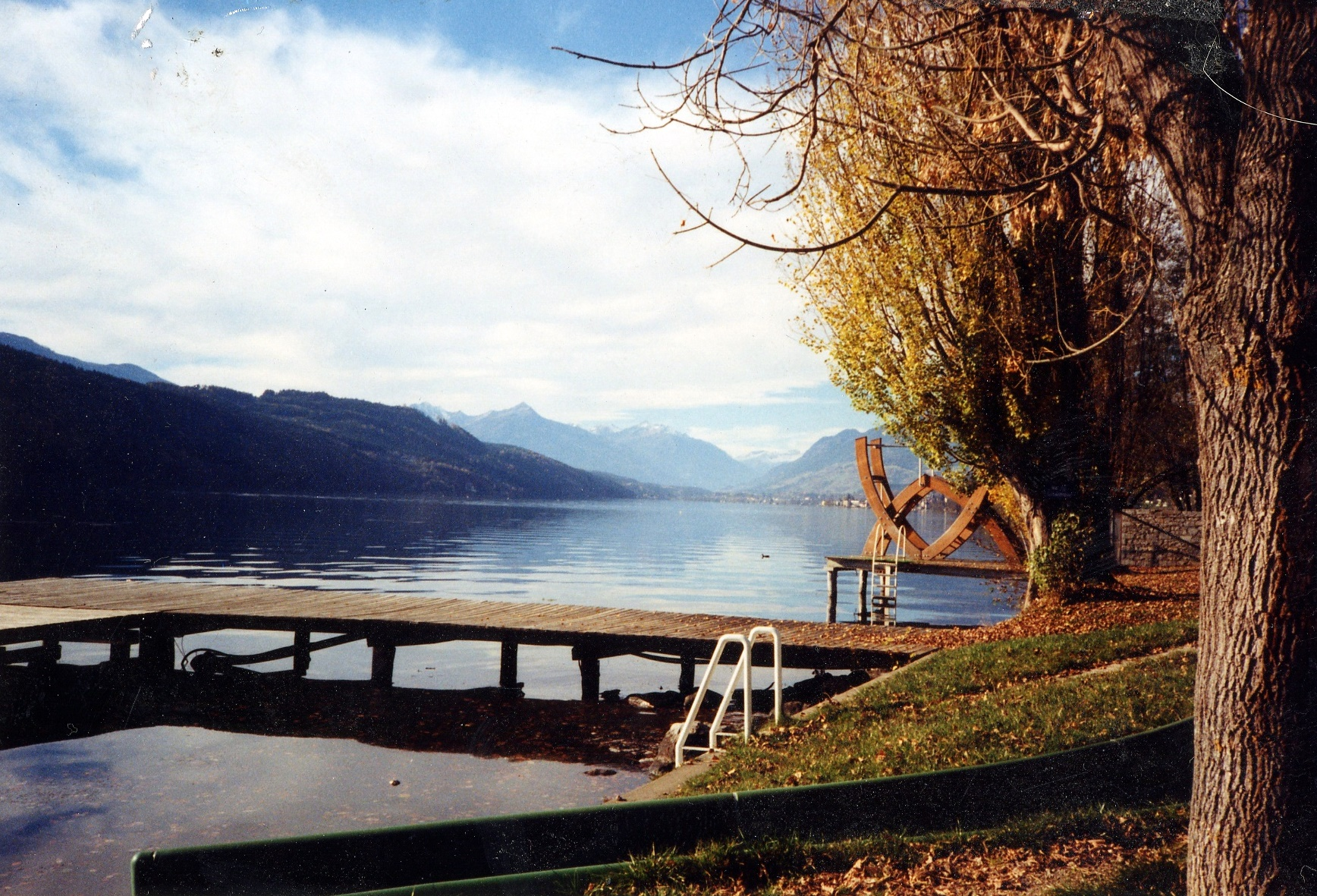 Lido in Dellach am Lake Millstatt in Carinthia / Austria / EU.